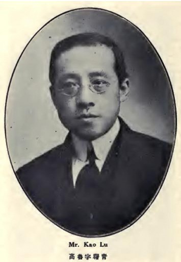 Gao Lu (1877-1947)